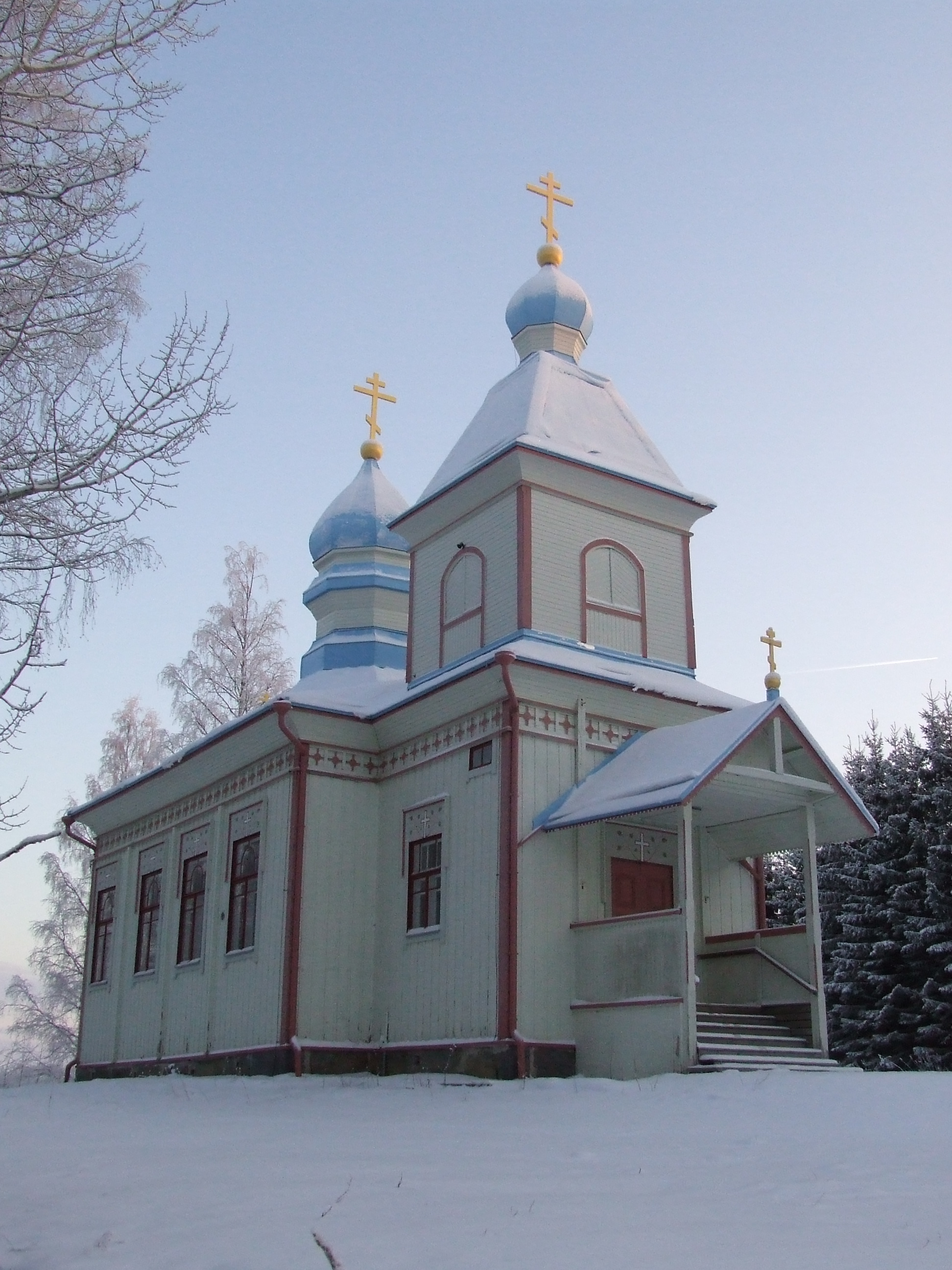 The church of Anna the Prophetess in Tuupovaara, Joensuu, Finland.